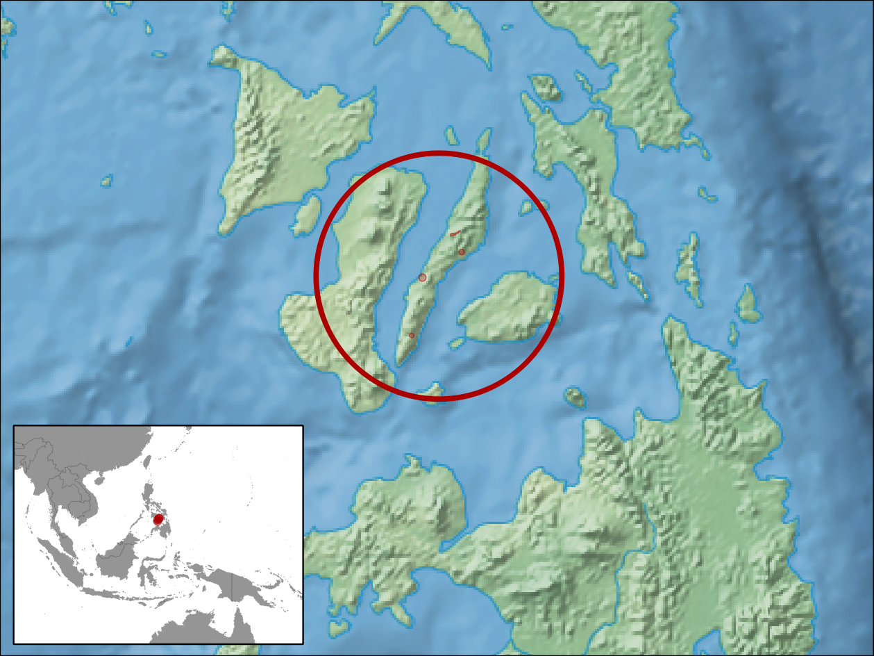 geographic distribution of Brachymeles cebuensis